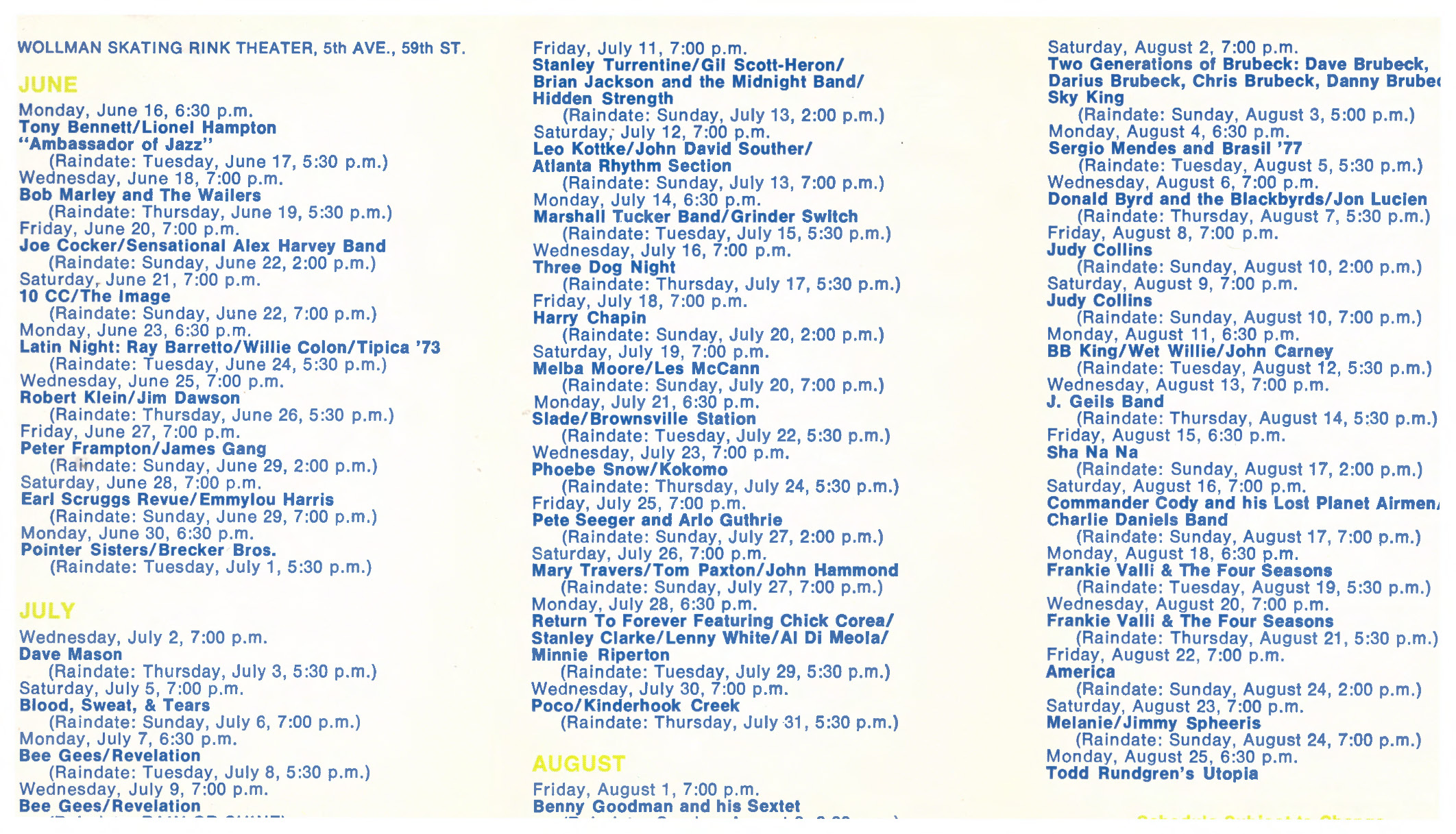 Schaefer Music Festival 1975 Schedule 2 of 2